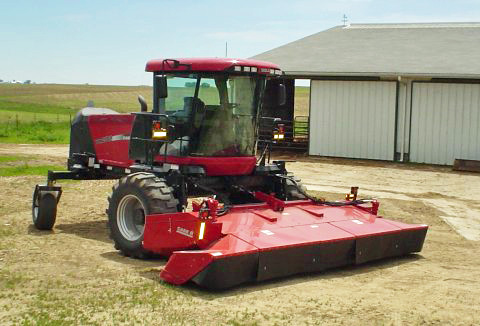 A Case IH windrower/swather. – This is a large mower for cutting hay and placing the chopped material into rows. Also called a Windrower, this is a self propelled Case model. This is a new mower that was recently purchased by my dad for use on his farm. I took this picture in May of 2005.